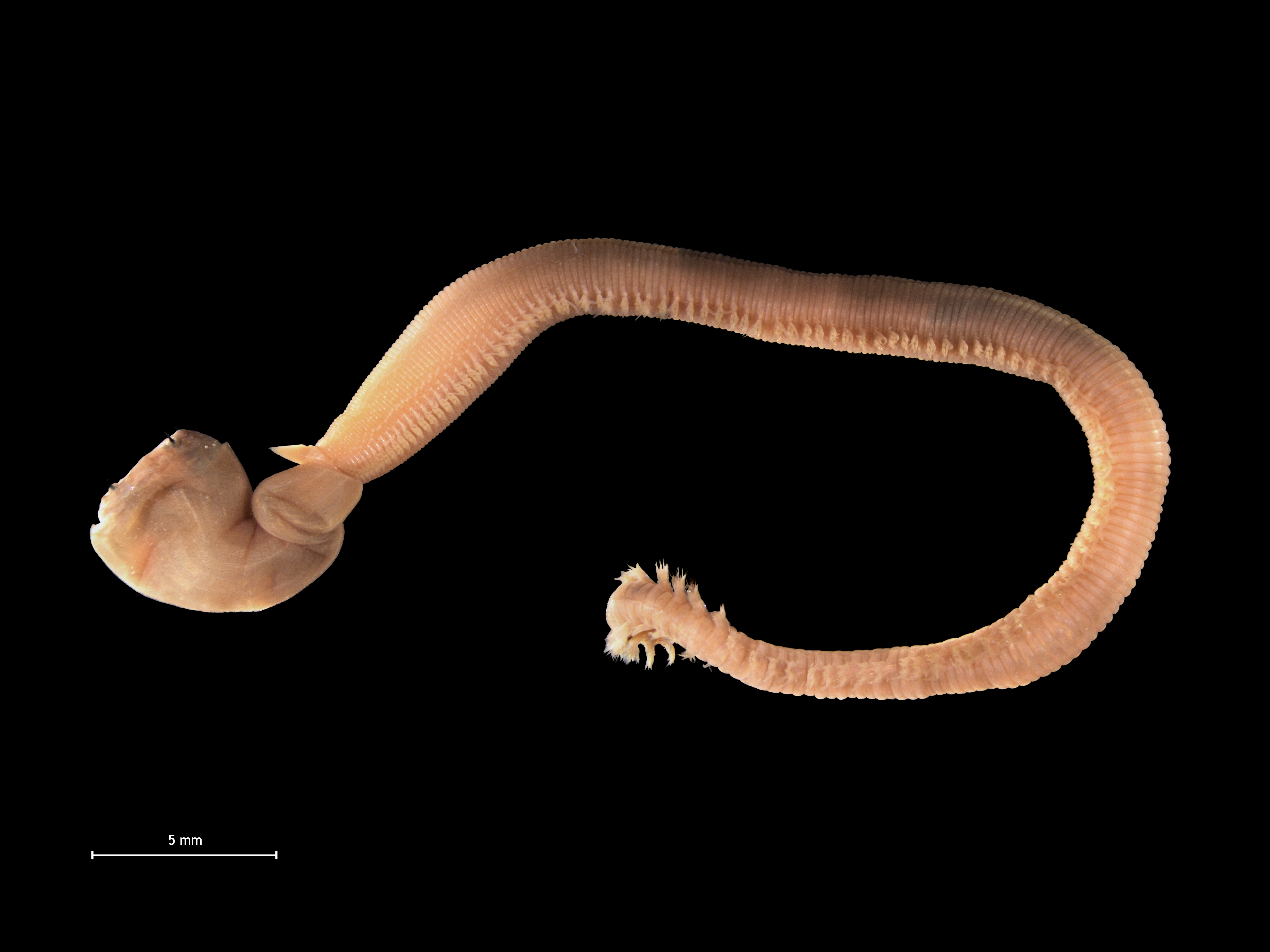 Predatory polychaete from the Belgian coastal waters. Geolocation is the origin of the sample. Focus stacking of 2 × 50 pictures.